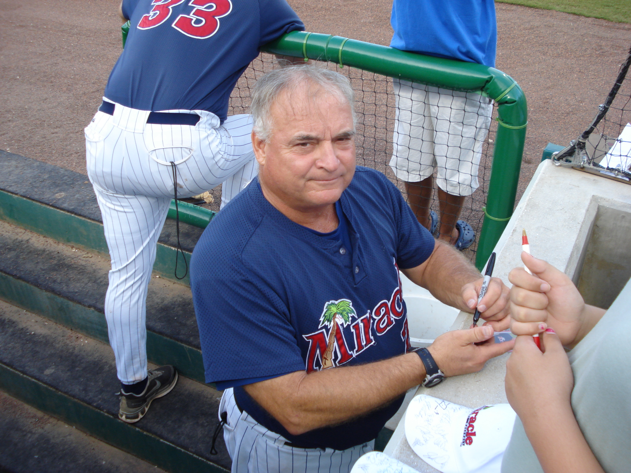 Coach Dwyer signing autographs for fans